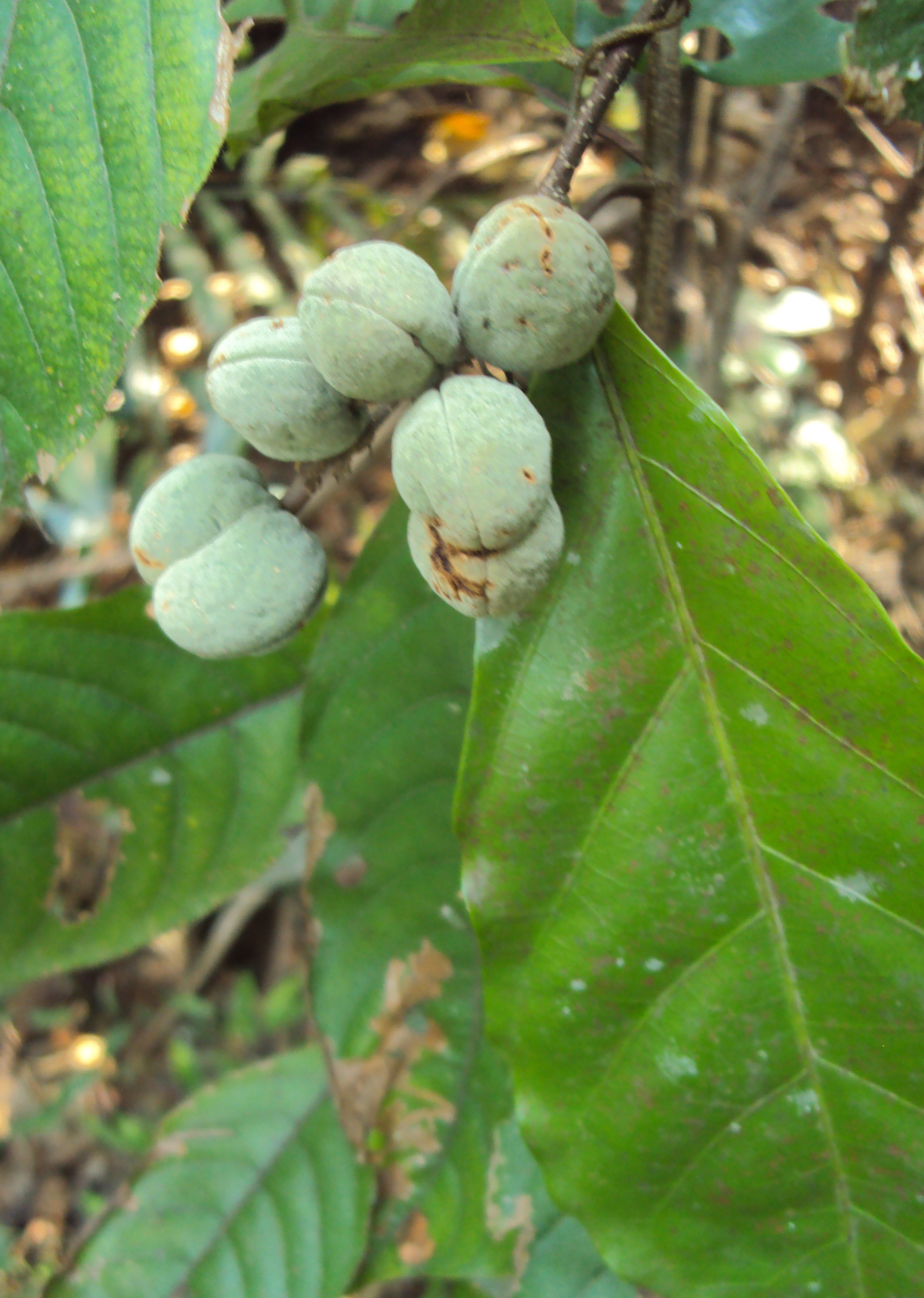 Dichapetalum gelonioides